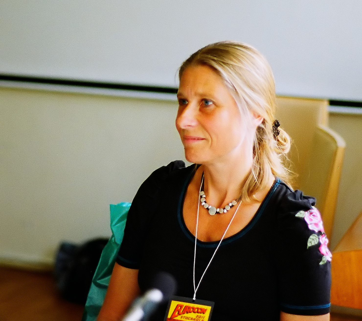 Swedish writer Lotta Olivercrona at Eurocon 2011 in Stockholm.